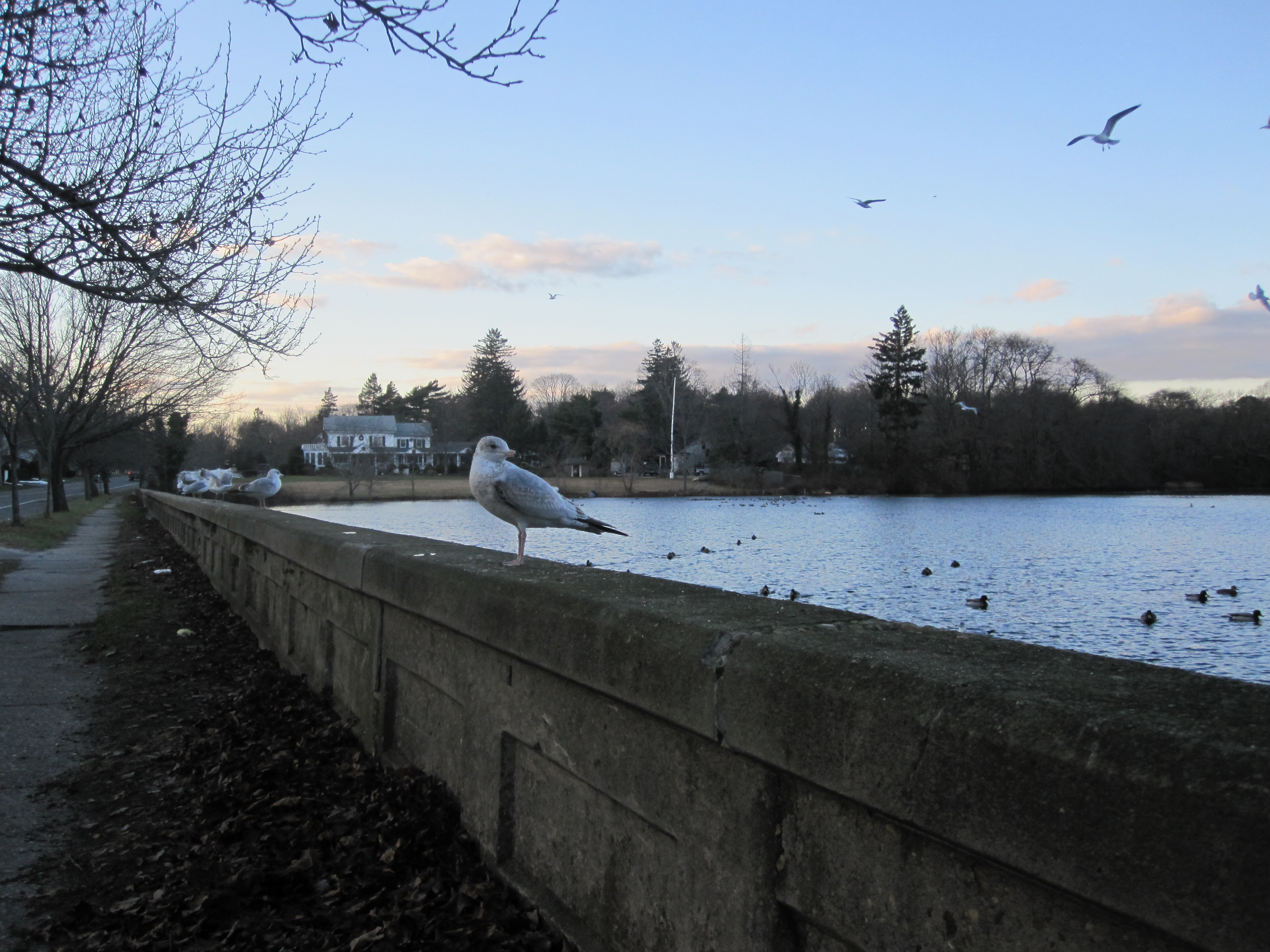 E Patchogue Lake on the north side of South Country Rd